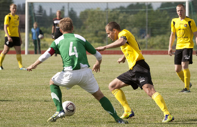 Rakvere JK Tarvas vs FC Flora Tallinn II (football)